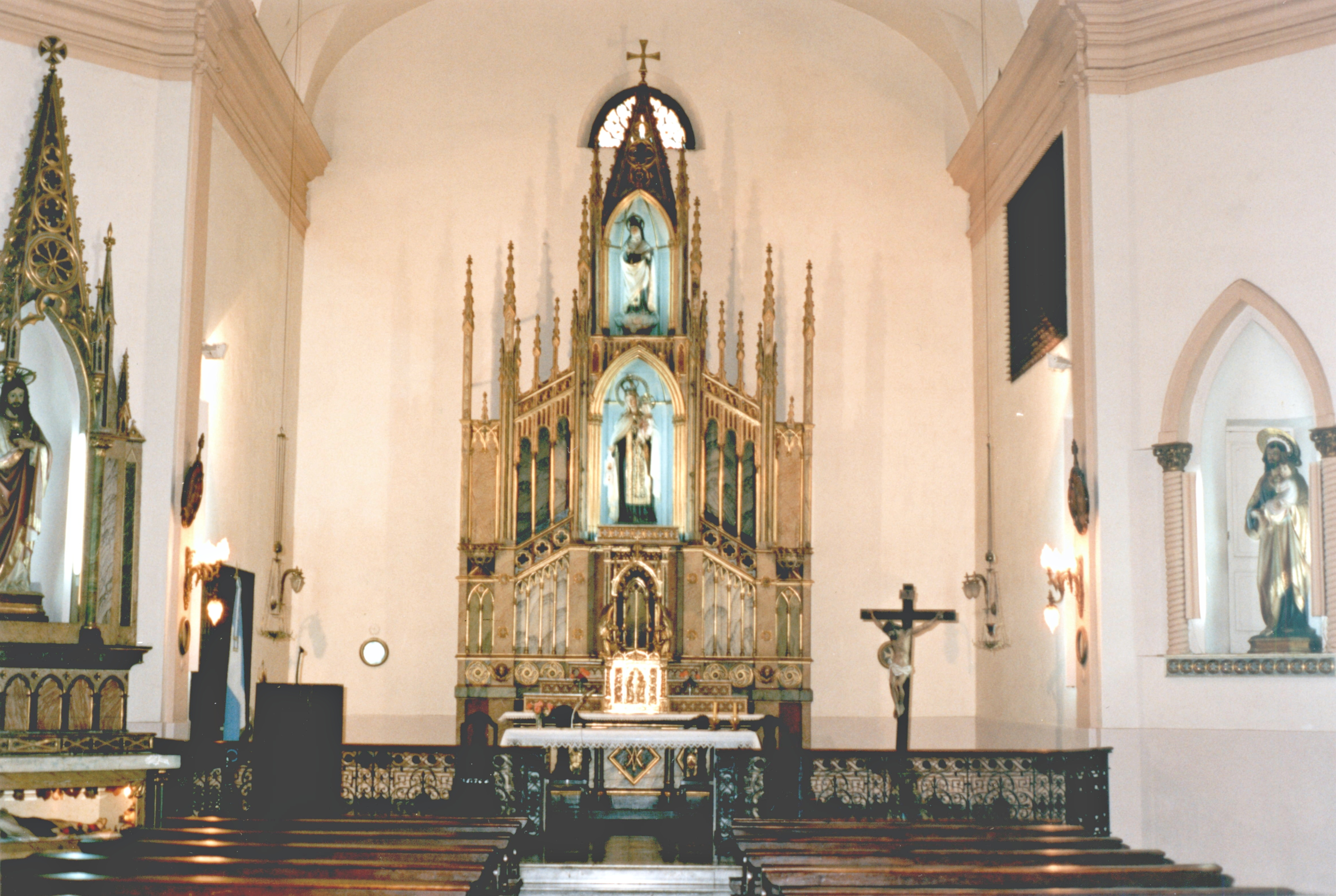 Church and Monastery Santa Teresa de Jesús (Buenos Aires) - Altar